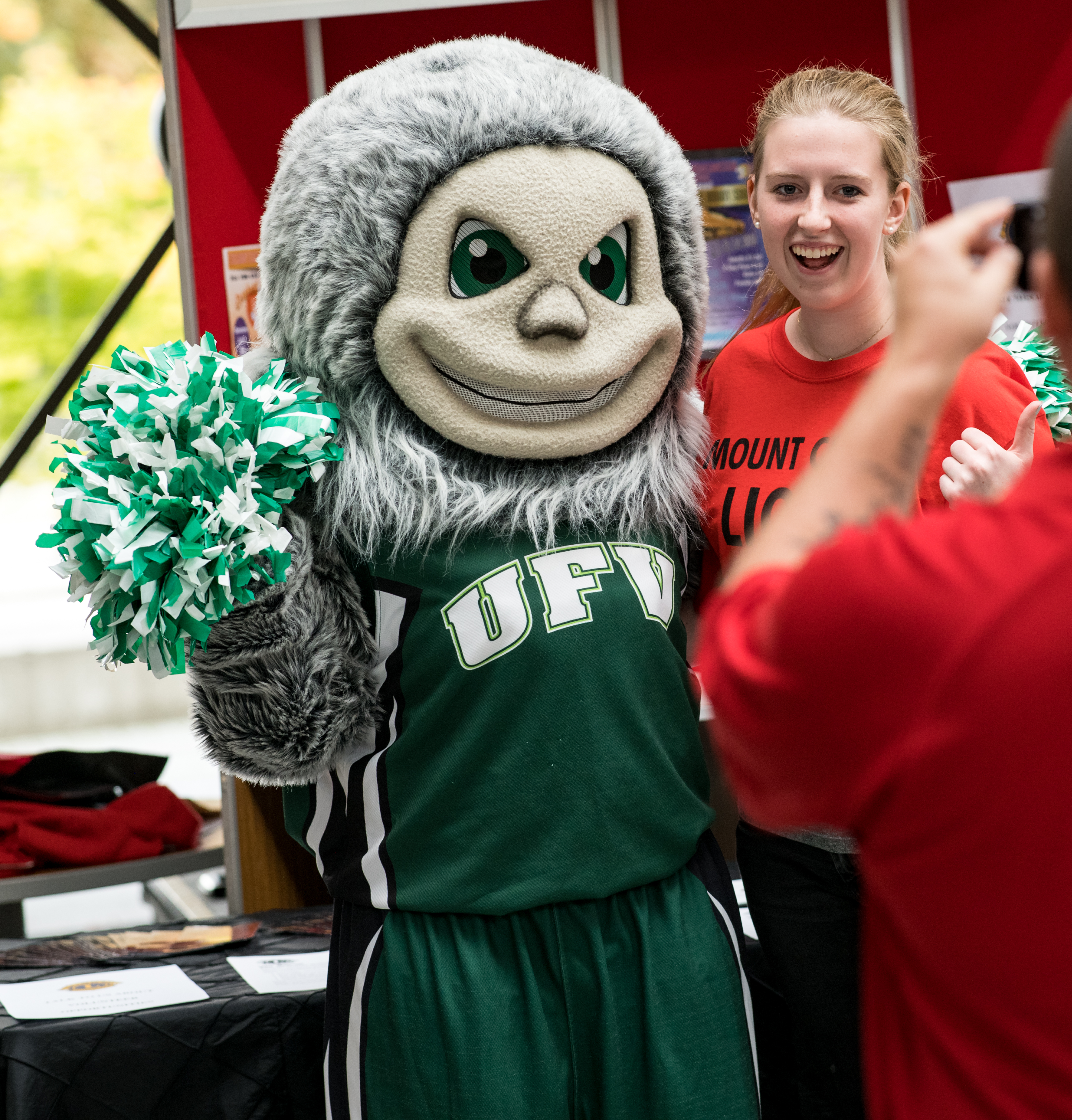 U-Join Chilliwack CEP ~ 2018-4